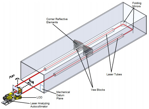 Alignment of laser cavity using laser-analyzing autocollimator